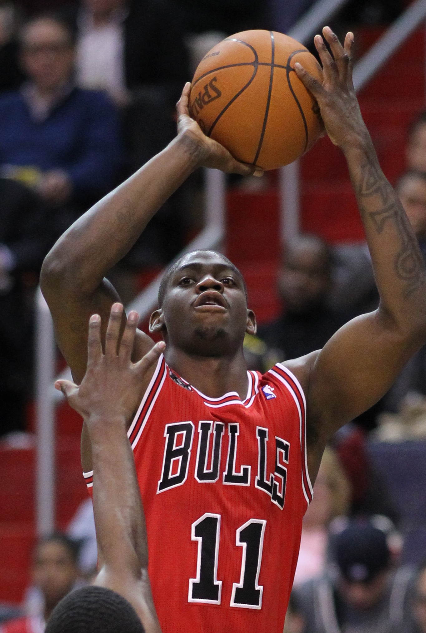 Wizards v/s Bulls 02/28/11